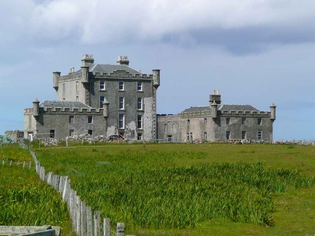 The 'new' Breachacha Castle This is the 18th century castle; the old castle, now restored, must have been too uncomfortable. This immense building is now also being restored.